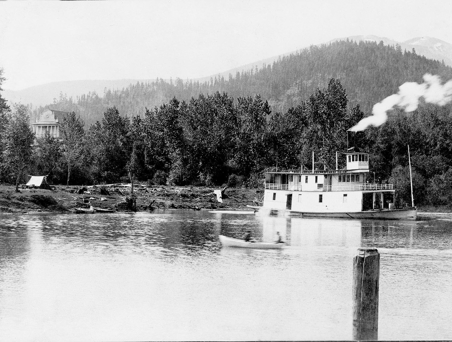 Sternwheeler Amelia Wheaton at the Old Mission, Idaho